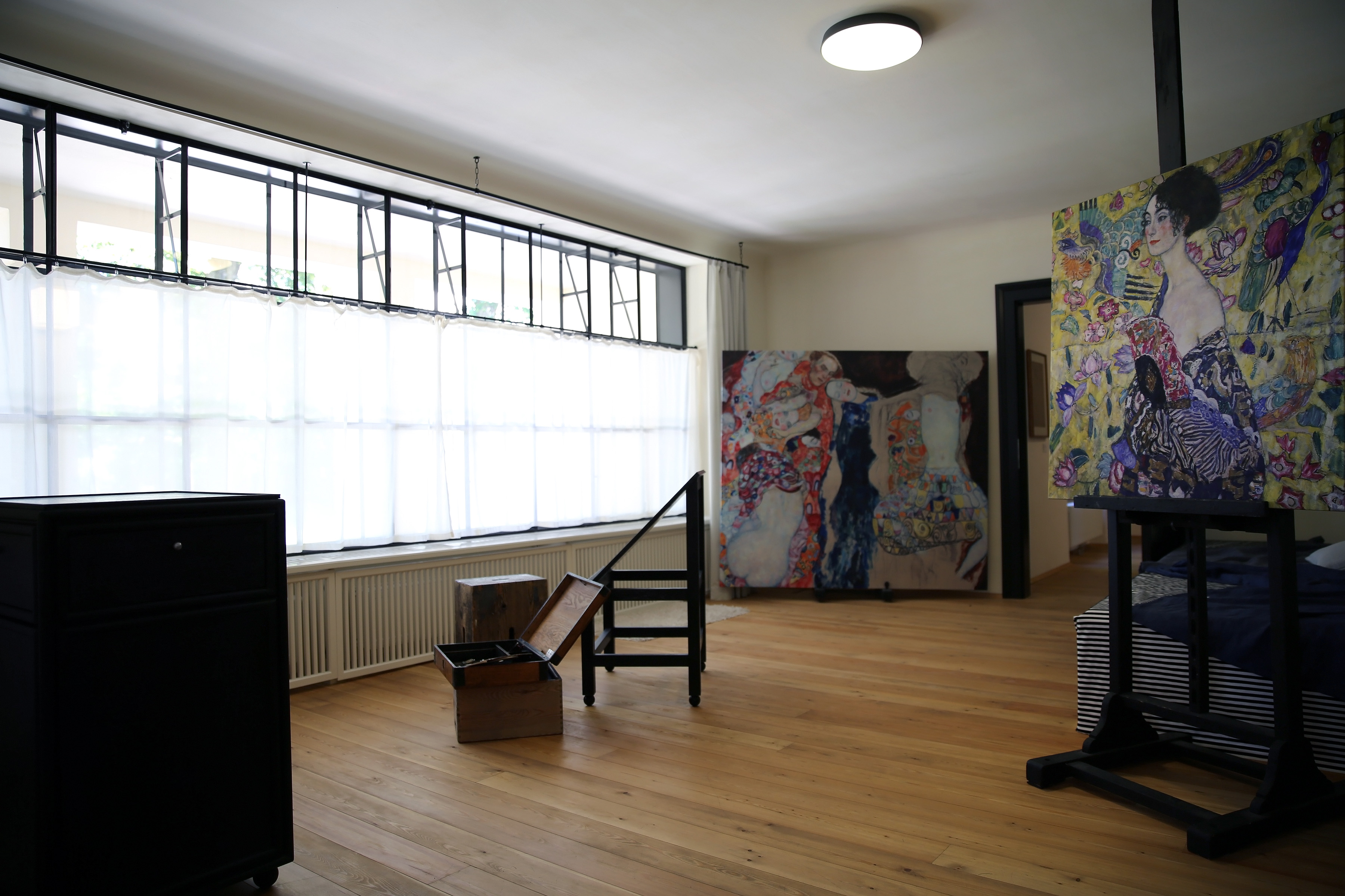 The reconstructed atelier of Gustav Klimt at the so called Klimt Villa, the artists last residence in Vienna, Austria, from 1911 to 1918. On display, copies of the paintings Woman with Fan (1917/18, right) and The Bride (1917/18 unfinished, left).